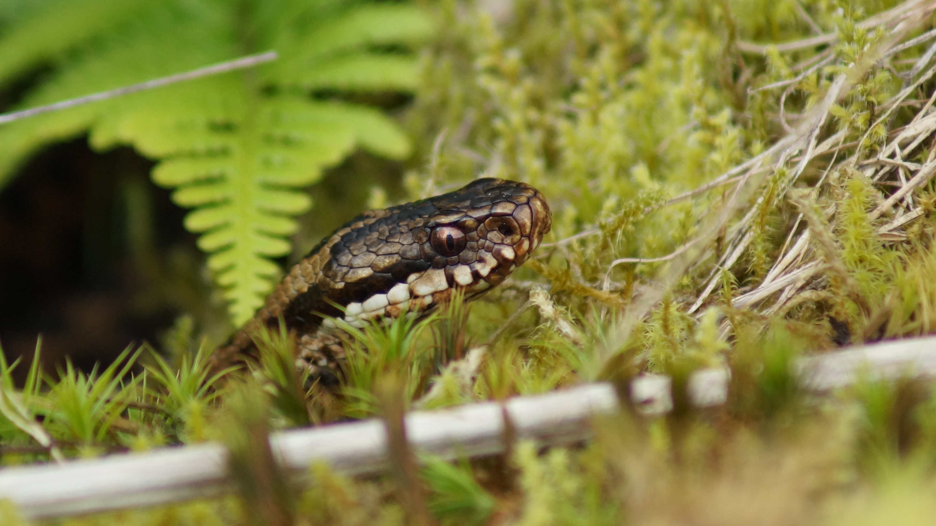 Female Common European Adder. Photographed near Aberfoyle, Stirlingshire, Scotland.